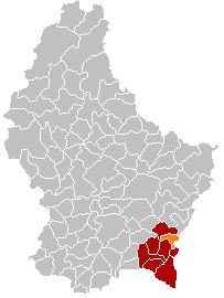 Own edit of Kanton RemichLocatie.png